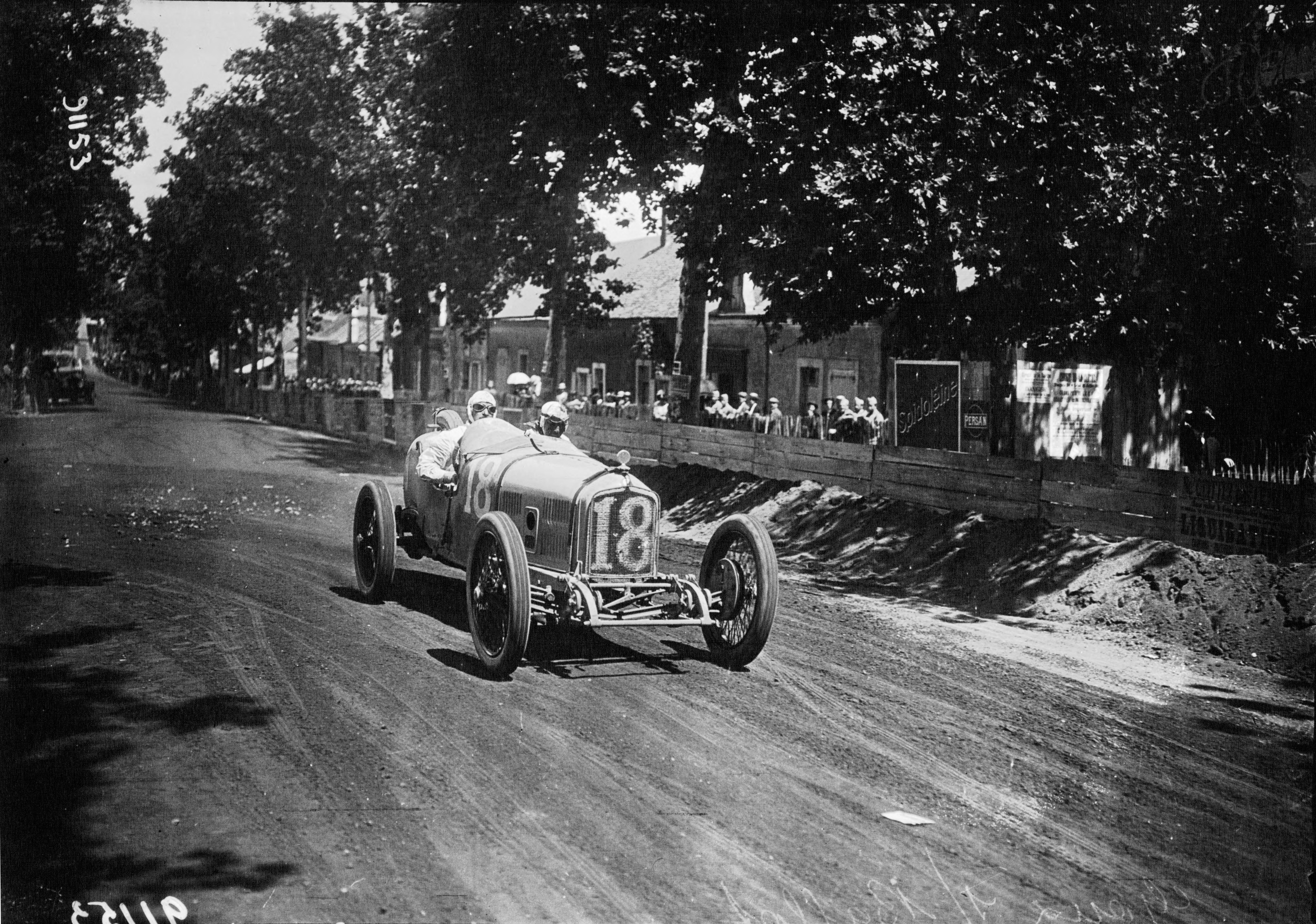 Jules Goux at the 1921 French Grand Prix